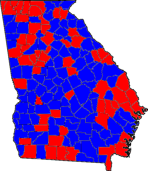 1986 Georgia Senate election results by county.